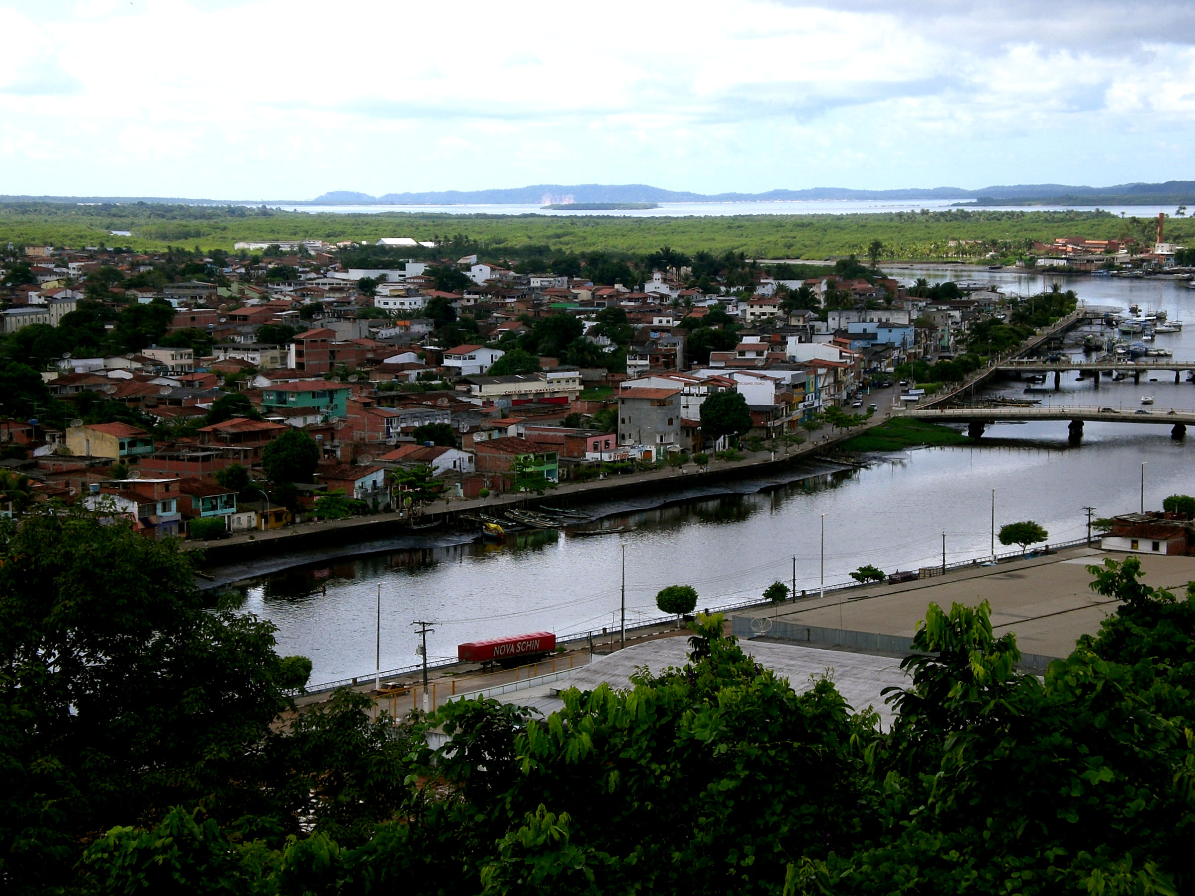 Partial Skyline, Valença, Bahia, Brazil.